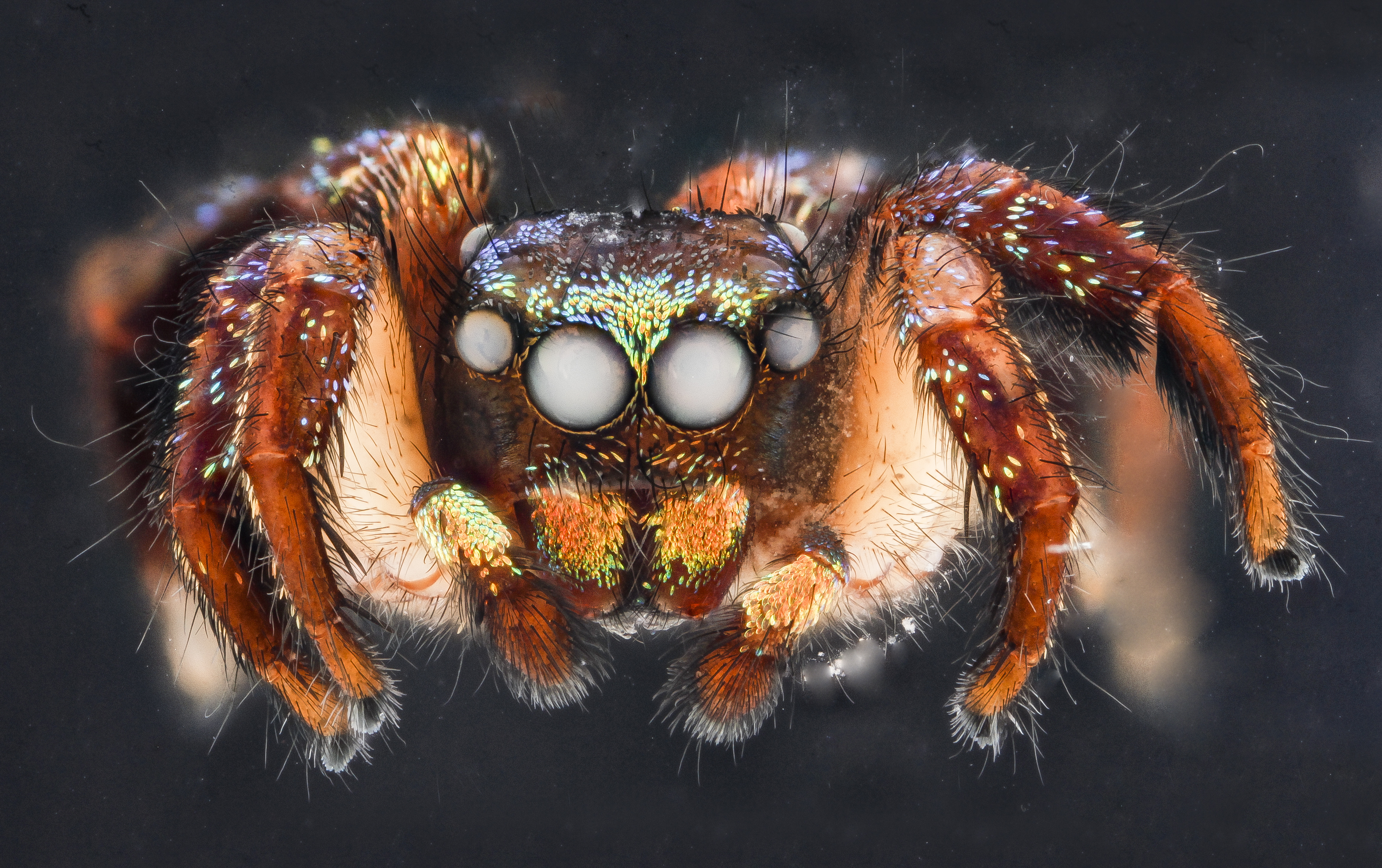 Christmas Lights Jumping Spider from the Dominican Republic, species unknown, but surprisingly marked with fluorescent scales